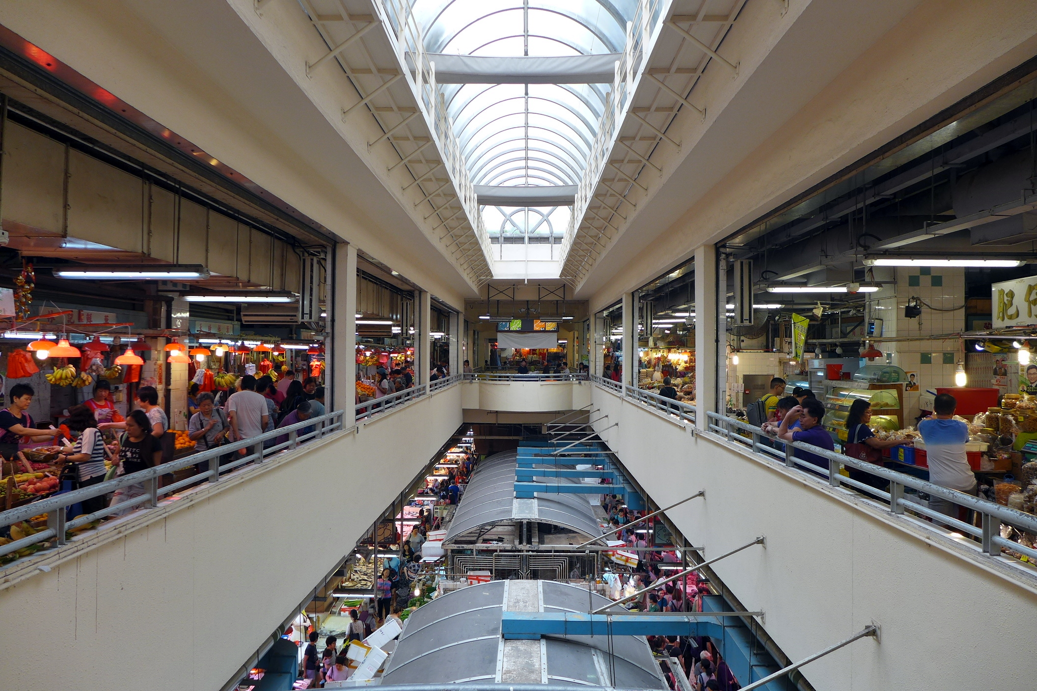 Tai Shing Street Market Atrium